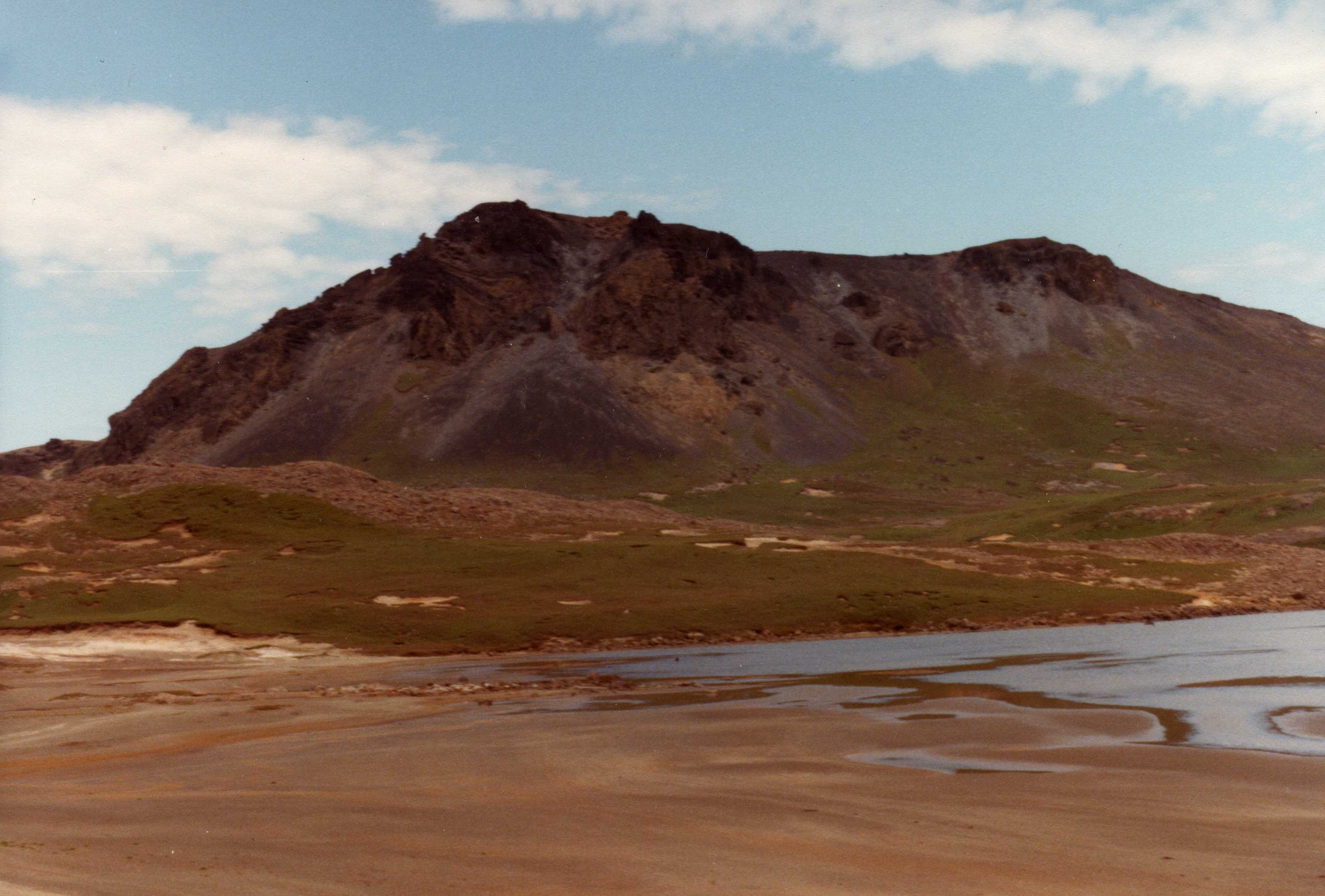 Kerguelen Islands - The Volcan du Diable (315 m) Scan of photo : B.navez - Fev 1984